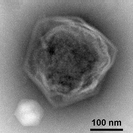 Electron microscopy image depicting capsids of the giant virus CroV and its associated virophage mavirus. Negative stain EM courtesy of U. Mersdorf, MPI for Medical Research, Germany.